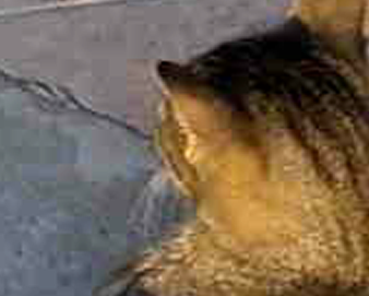 An example of the macroblocking effect